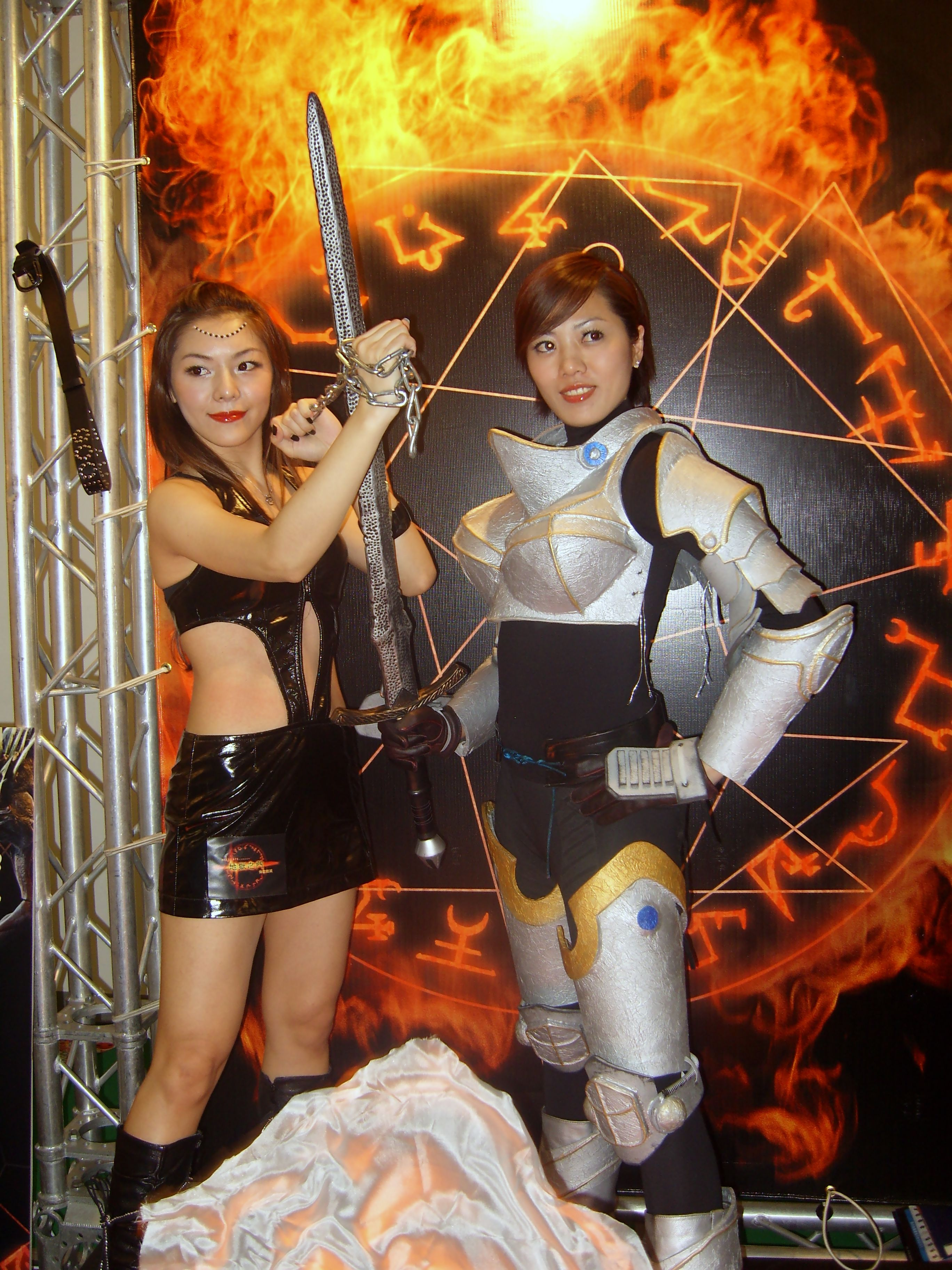 2008 Taipei Game Show: Female promotional model of Hellgate: London at WarTown booth of GigaMedia Limited.